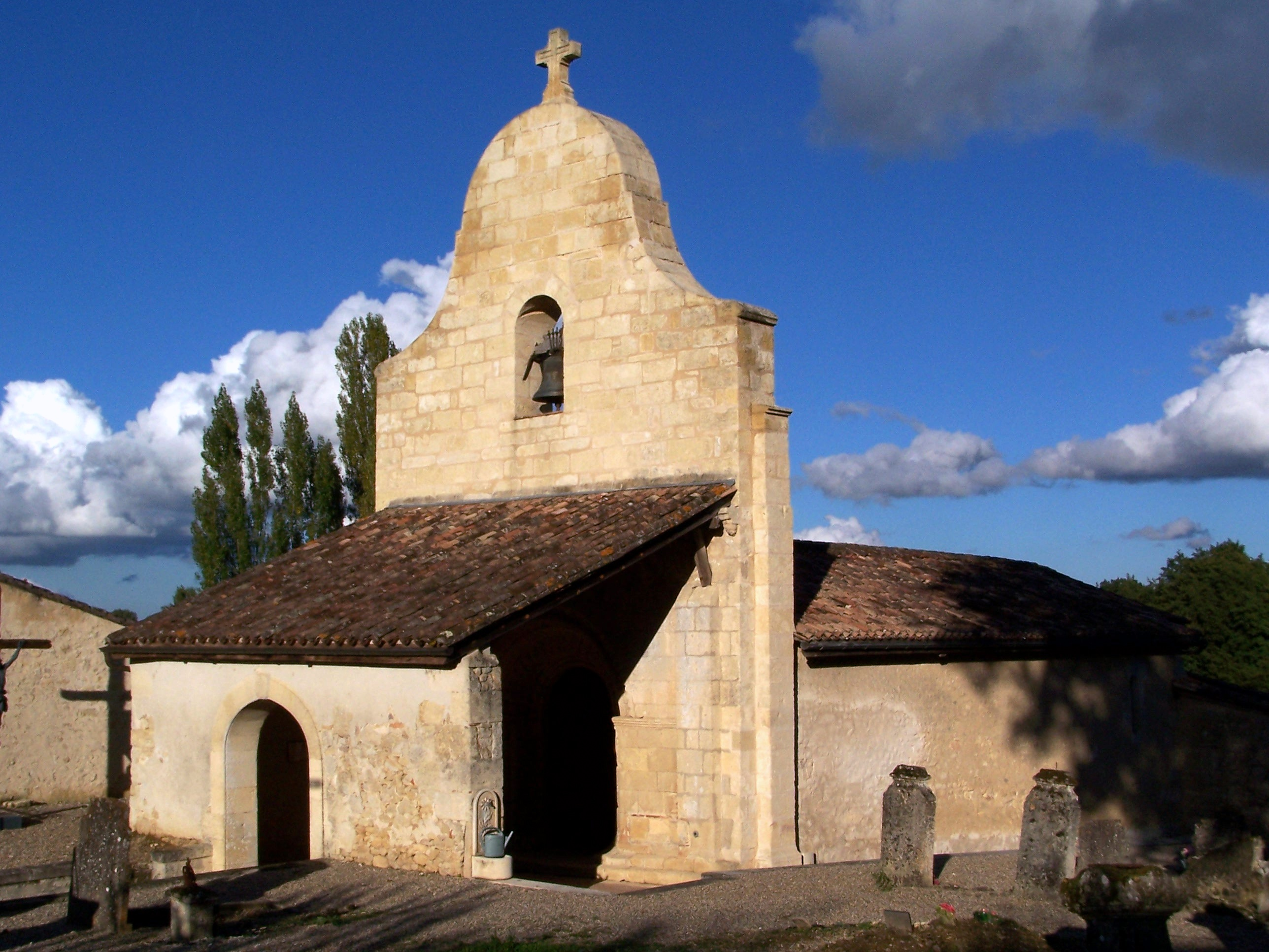 Church of Saint-Genis-du-Bois (Gironde, France)